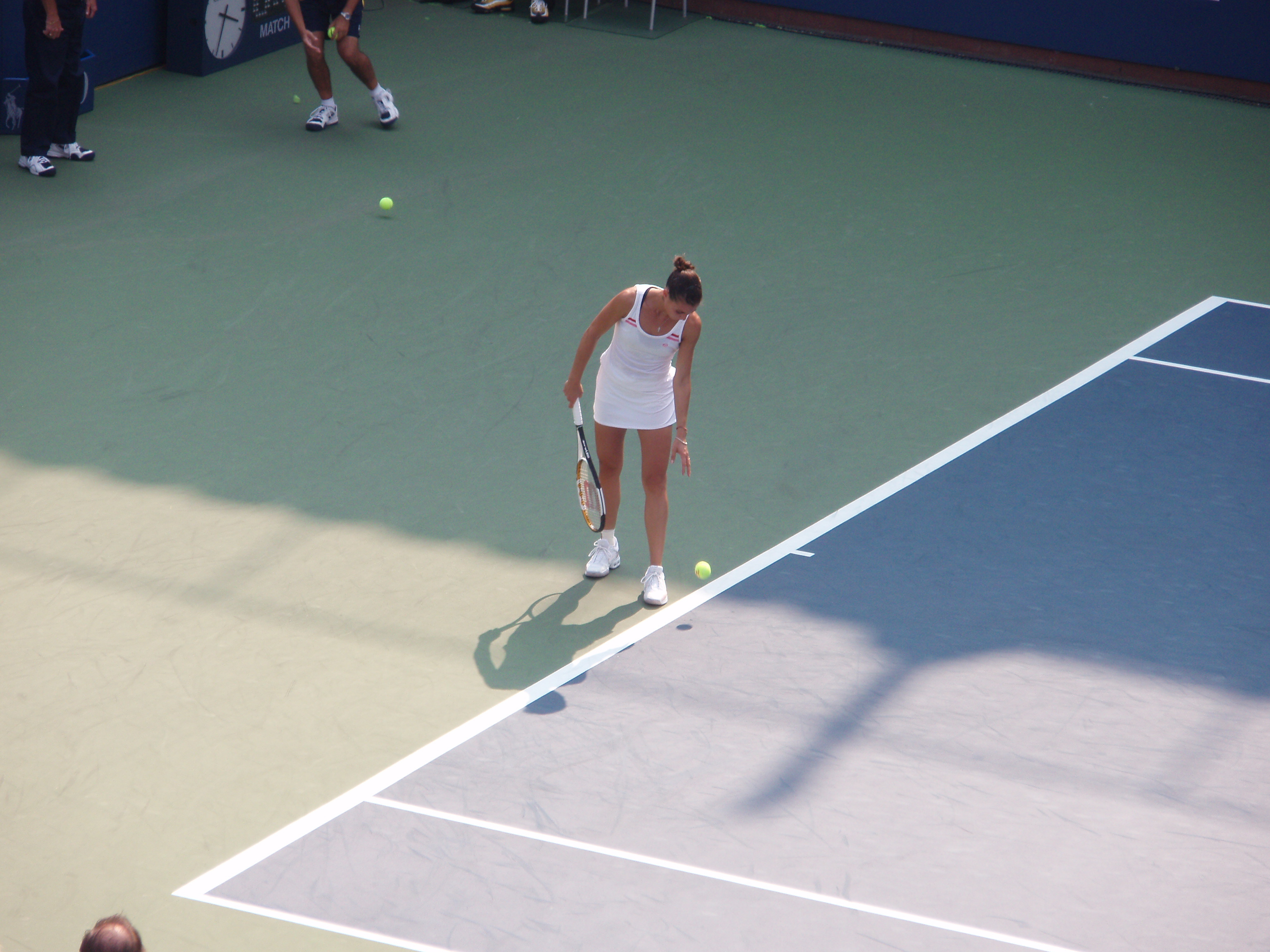 Flavia Pennetta At The 2007 US Open